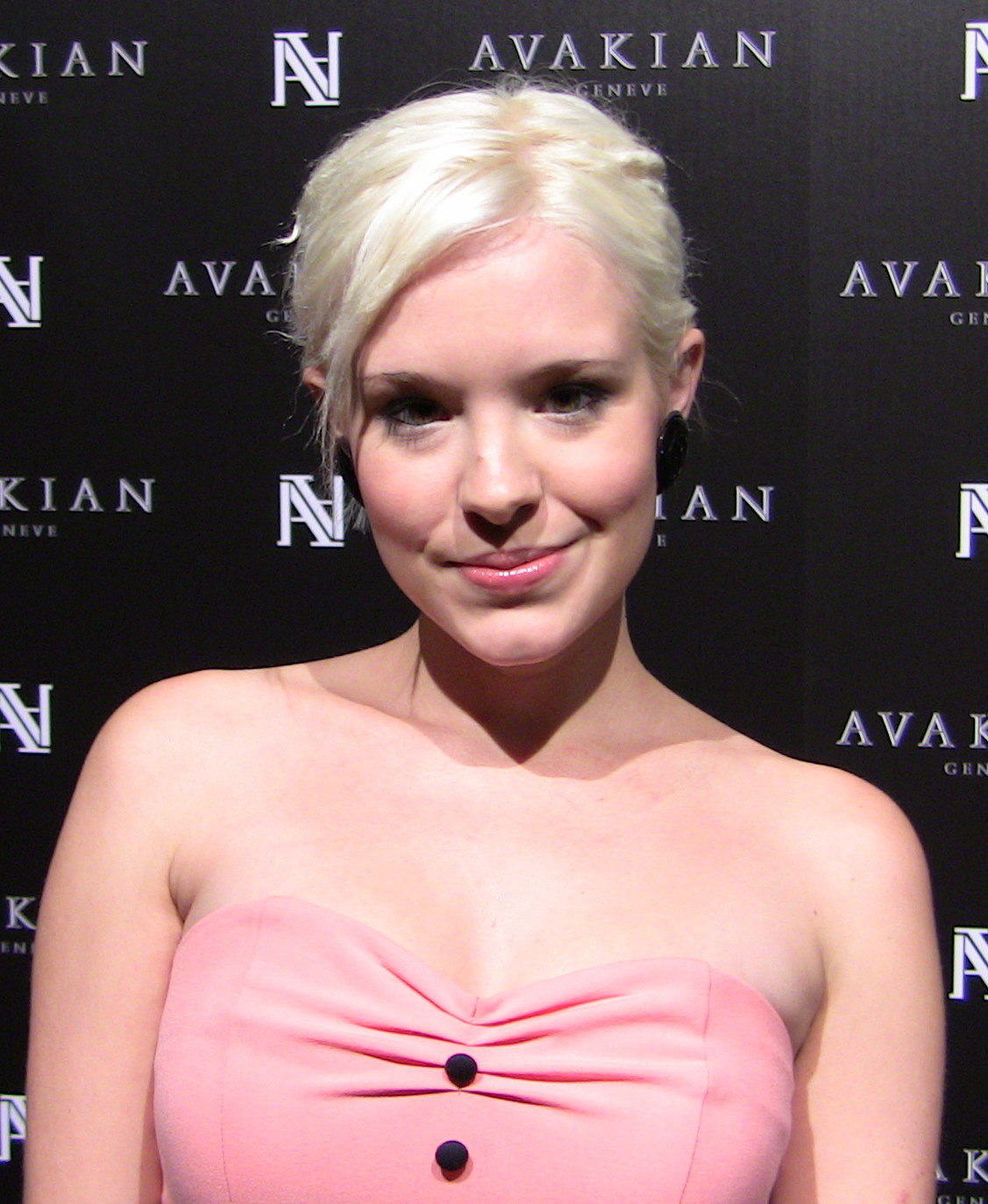 Brea Grant at Avakian Beverly Hills Boutique, Beverly Hills, California, United States